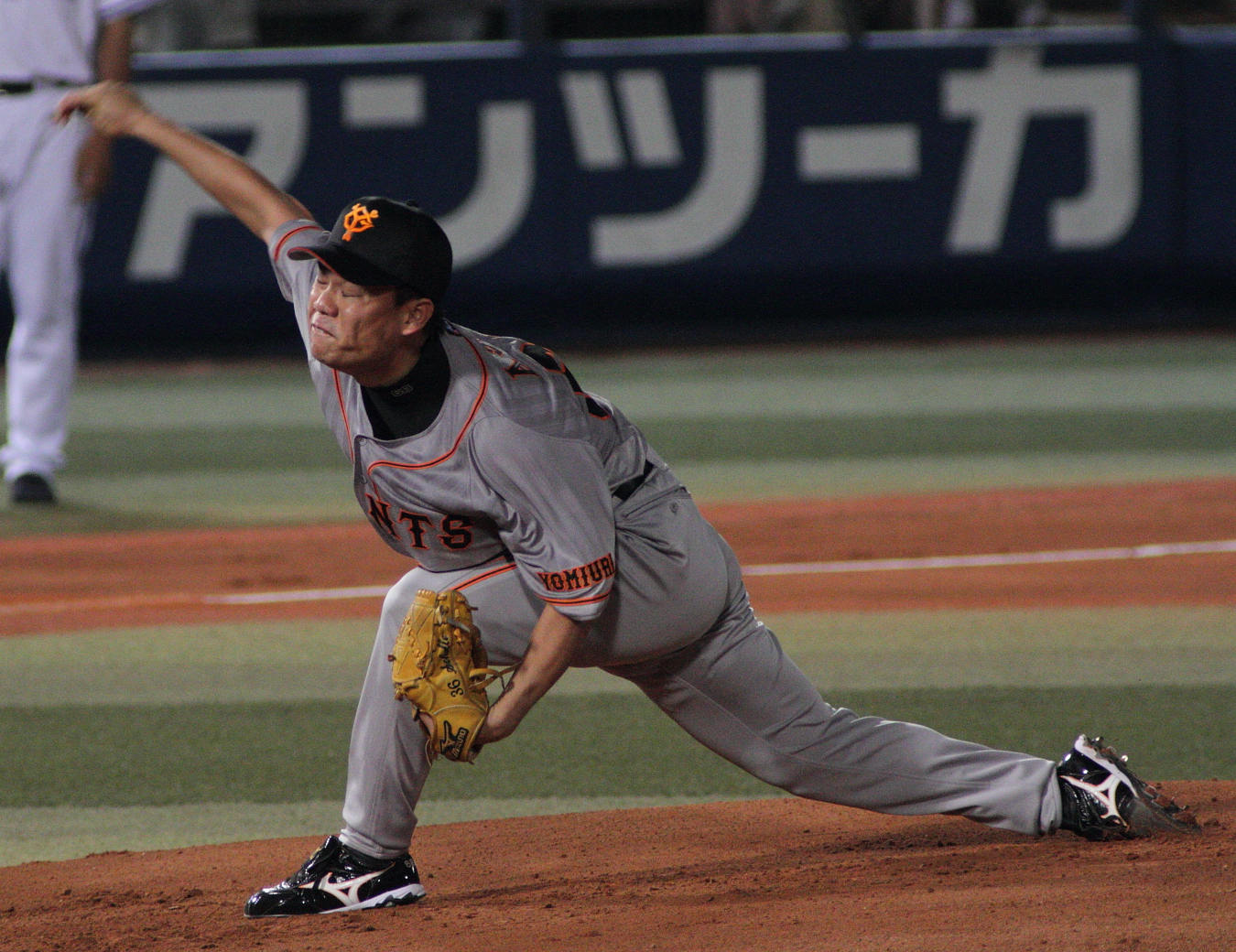 Hideki Asai, pitcher of the Yomiuri Giants, at Yokohama Stadium.